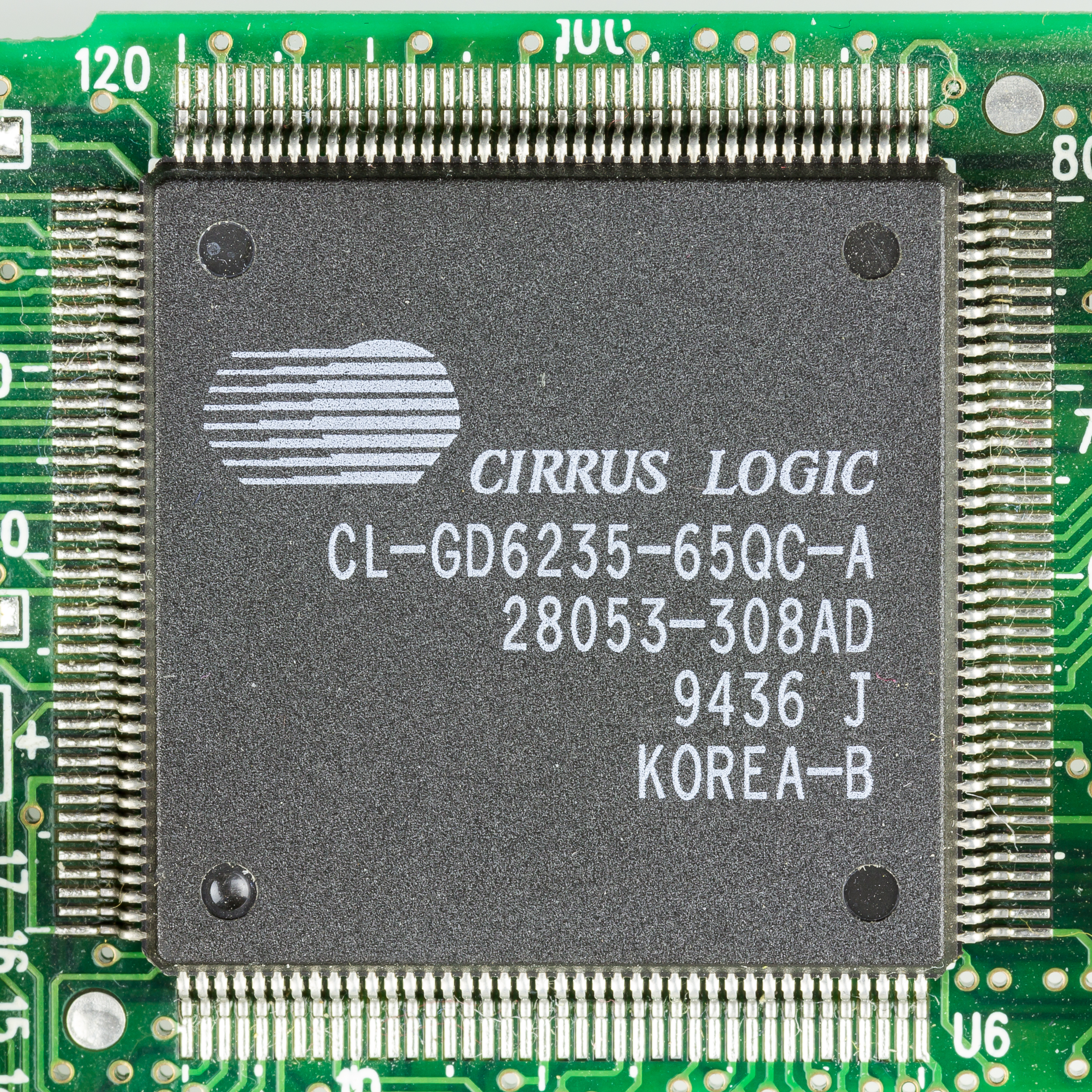 Laptop Acrobat Model NBD 486C, Type DXh2 - Cirrus Logic CL-GD6235-65QC-A (Single DRAM LCD/VGA Controllers for Monochrome/Color Notebook Computers) on motherboard